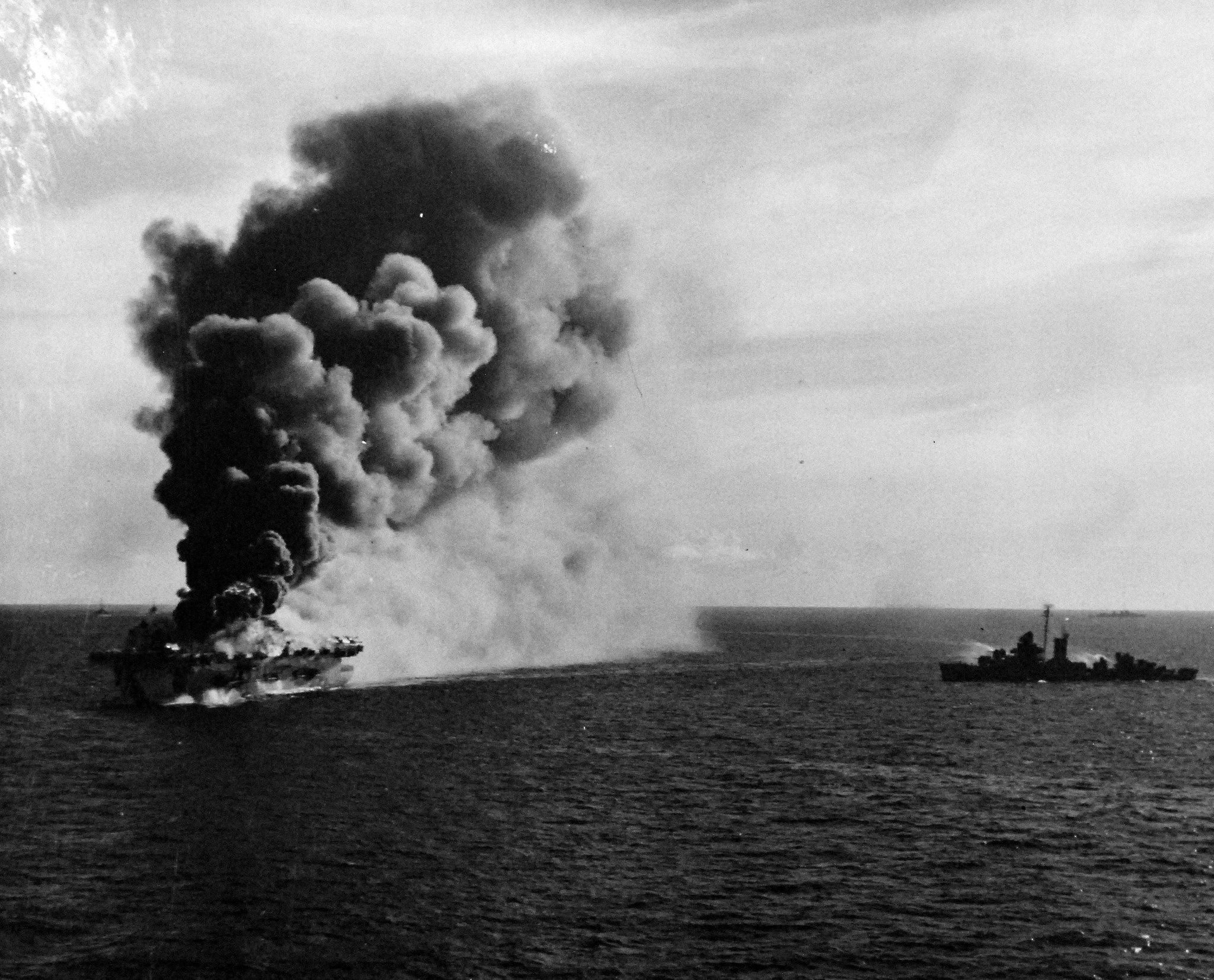 The USS Ommaney Bay (CVE-79) on fire, following a kamikaze attack on 4 January 1945. The destroyer Patterson (DD-392) is maneuvering to attempt to extinguish the flames. Photographed from the battleship West Virginia (BB-48). Ommaney Bay later sank, as a result of the damage sustained from the attack.